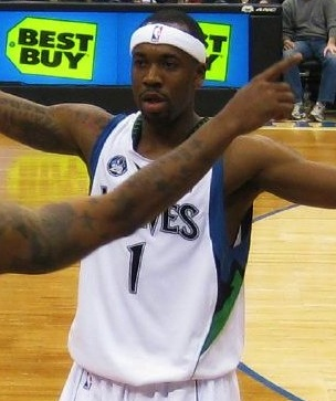 Bobby Brown playing against the Oklahoma City Thunder.